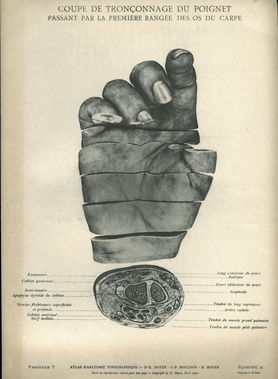 Image of right hand, showing the specific parts: extenseurs, cubital postérieur, semi-lunaire, apophyse styloïde du cubitus, muscles fléchisseurs superficels et profonds, cubital antérieur, nerf médian, long extenseur du pouce, radiaux, court abdcuteur du ponce, scaphoïde, tendon du long supinateur, artère radiale, tendon du muscle grand palmaire, tendon du muscle petit palmaire. Issued in seven installments by the flamboyant Parisian surgeon Eugène-Louis Doyen (1859-1916), this atlas of 279 "heliotyped" photographic plates of cross-sectioned bodies was a radical departure from past practice. Atlas d’anatomie topographique, Fasicsule 7, Planche 31.